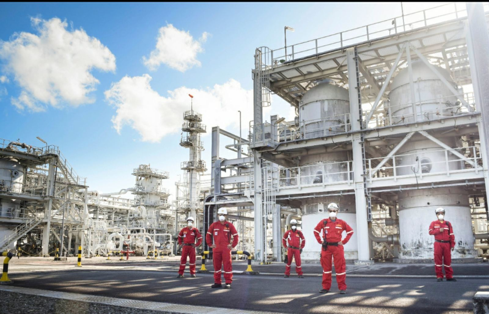 Work continues at Malampaya's Onshore Gas Plant in Batangas City to help power up to 40% of Luzon with Malampaya natural gas - to power hospitals, groceries, drugstores and homes. Together with the Filipino people, the Department of Energy through Shell/Malampaya is doing its part in fighting COVID-19. (DOE/PIA-IDPD)